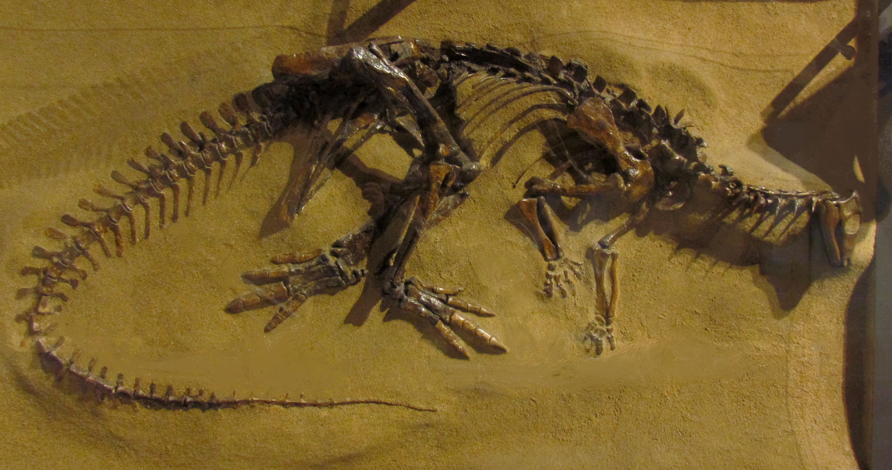 Cast of Thescelosaurus specimen NMC 8537 at Canadian Museum of Nature, Ottawa, Ontario, Canada. NMC 8537 was originally described as the type specimen of T. edmontonensis, later assigned to T. neglectus by Galton, 1974, and to T. sp. per Boyd et al., 2009.